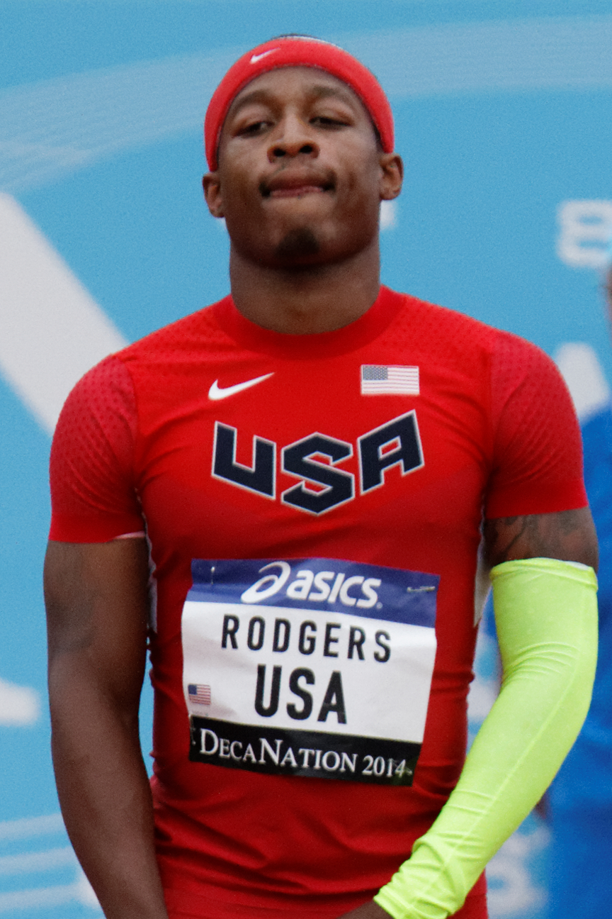 DécaNation 2014. 100m.